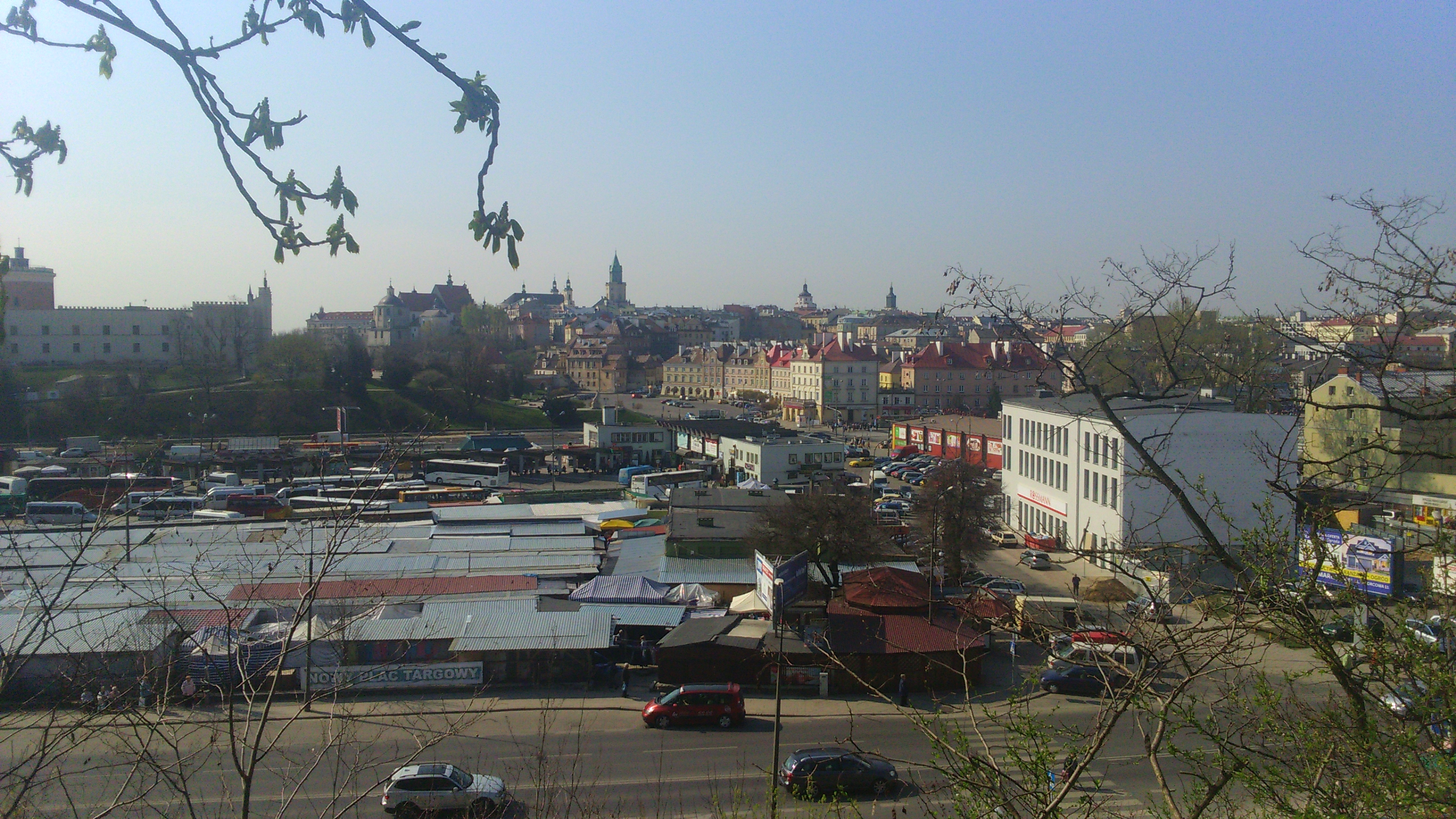 Widok na Lublin ze wzgórza "Czwartek"